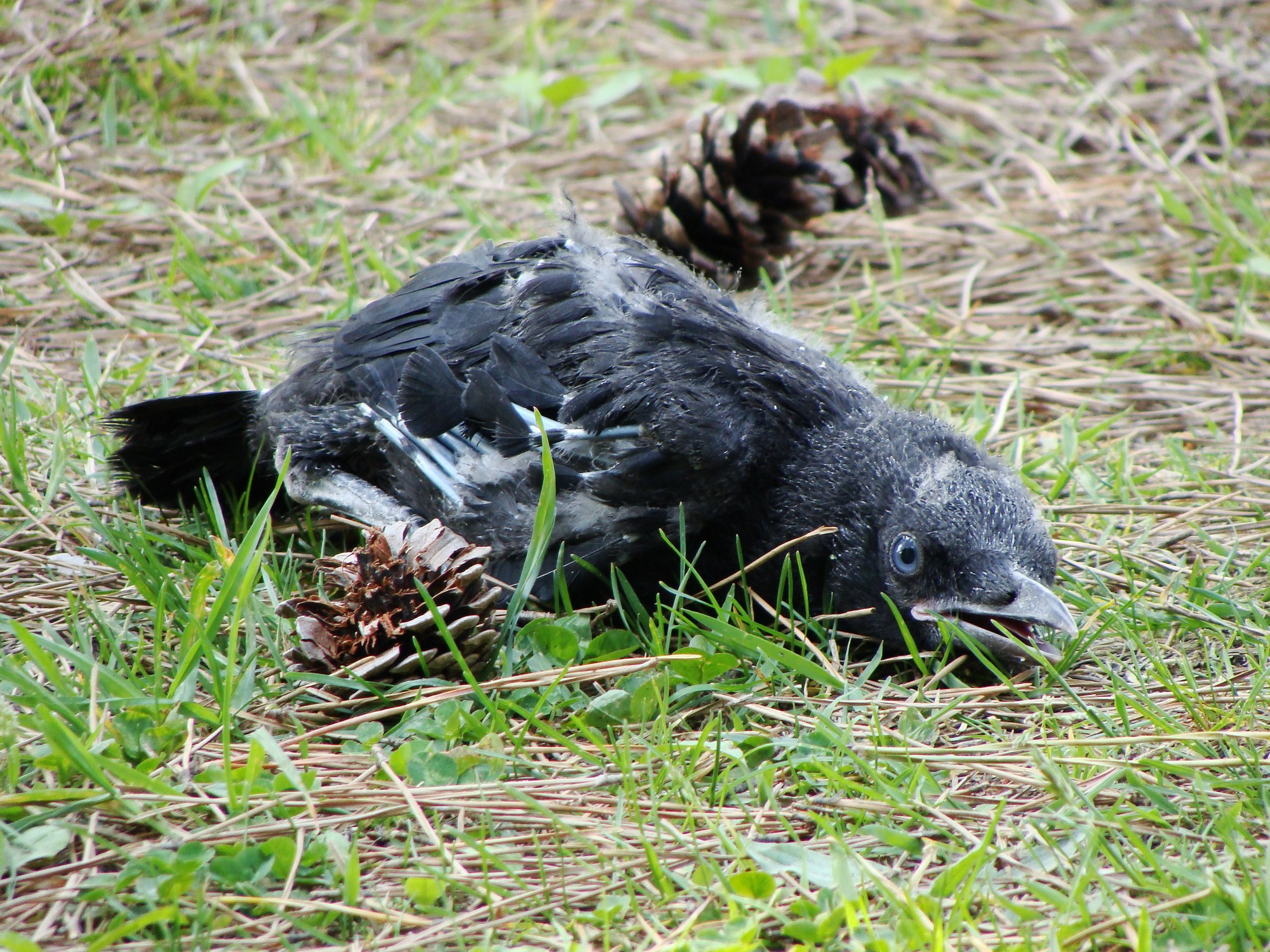 Carrion crow baby, Gappo Park Aomori Cityi Japan